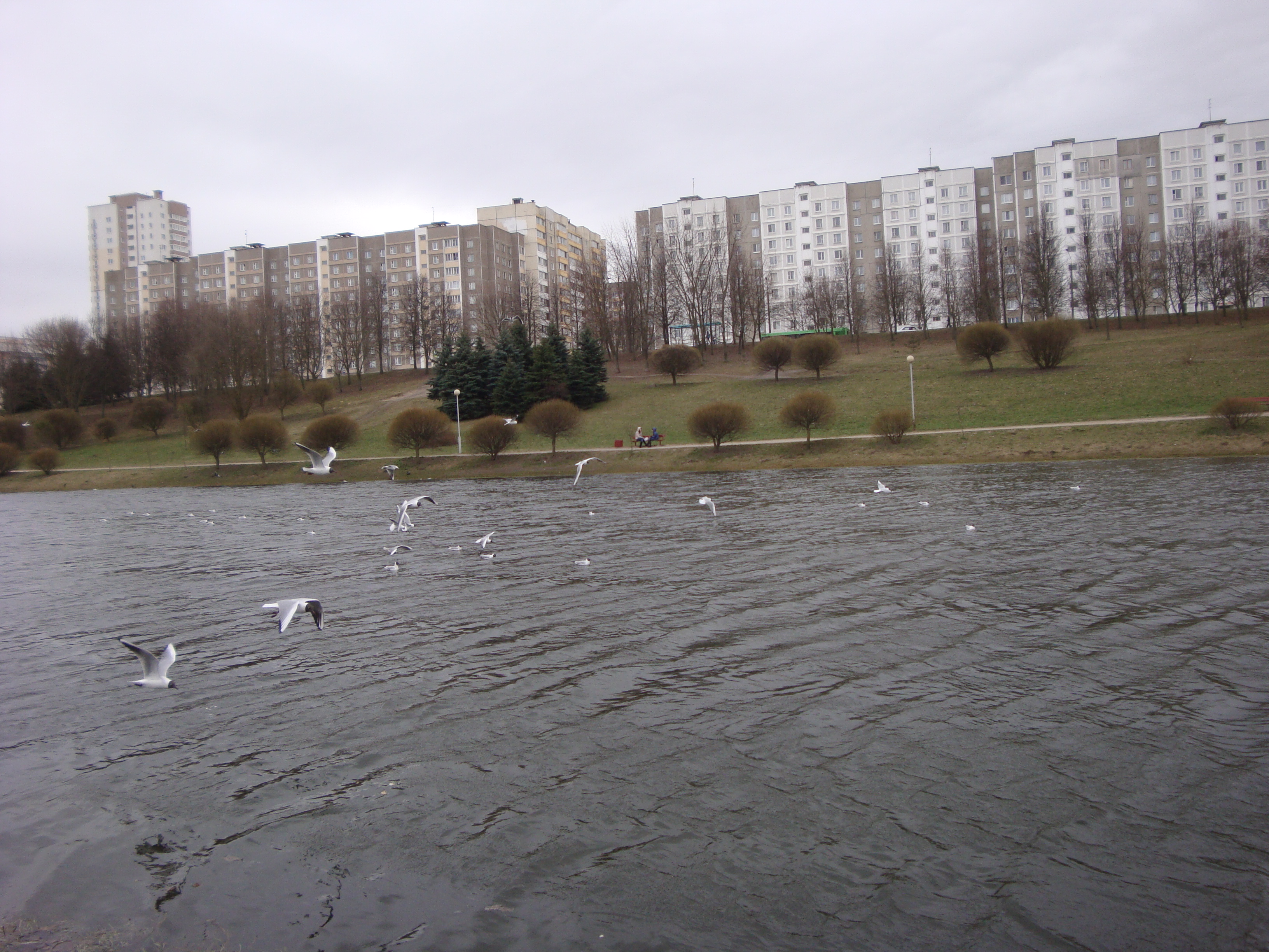 Chroicocephalus ridibundus in Michail Paulau Park in Minsk city (Belarus), 12 April 2015 AD.